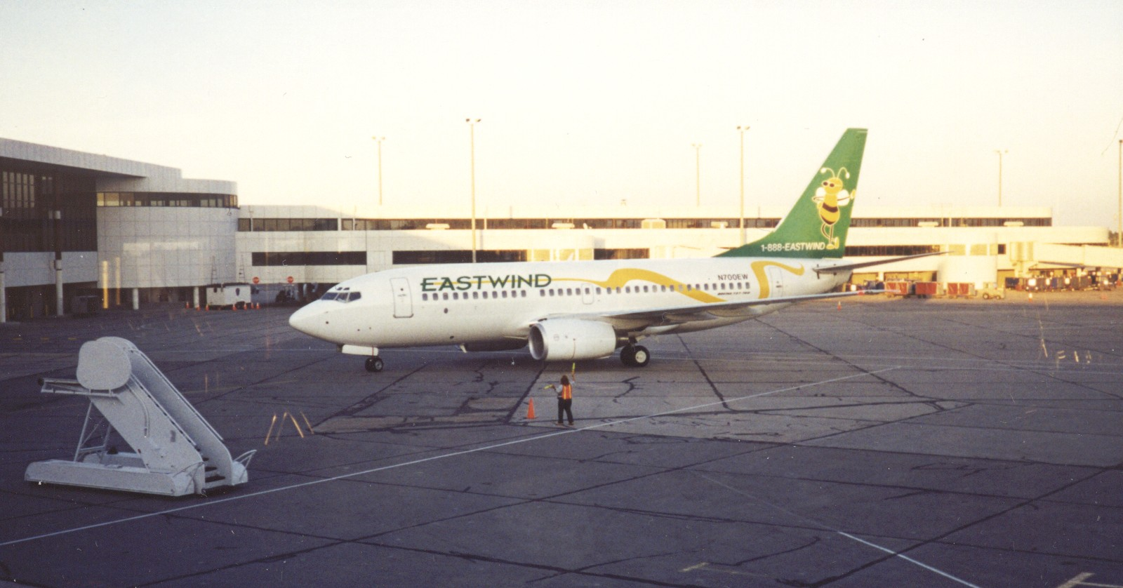 Eastwind Airlines Boeing 737-700 seen arriving at Greater Rochester, NY International Airport from Boston Logan International Airport in August 1998